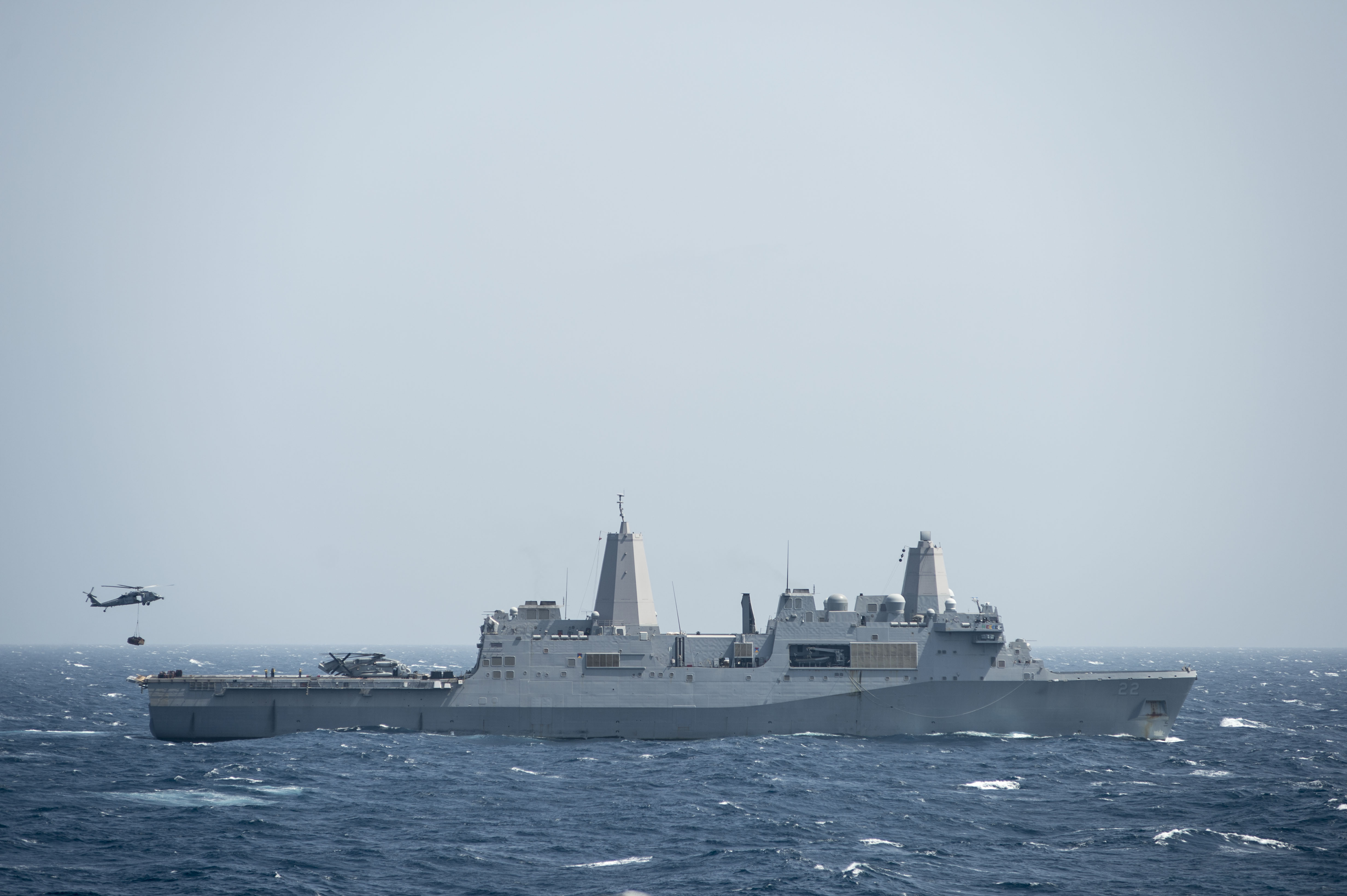 A U.S. Navy Sikorsky MH-60S Sea Hawk helicopter assigned to Helicopter Sea Combat Squadron (HSC) 23 Wild Cards delivers pallets of supplies to the amphibious transport dock ship USS San Diego (LPD-22) during a vertical replenishment with the amphibious assault ship USS Makin Island (LHD-8), not visible, in the Red Sea. The Makin Island Amphibious Ready Group and the embarked 11th Marine Expeditionary Unit (MEU) were deployed in support of maritime security operations and theater security cooperation efforts in the U.S. 5th Fleet area of responsibility.